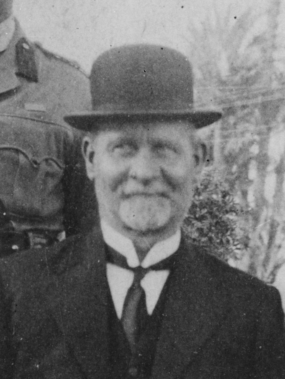 Member of Parliament Richard McCallum. Photographer unidentified.